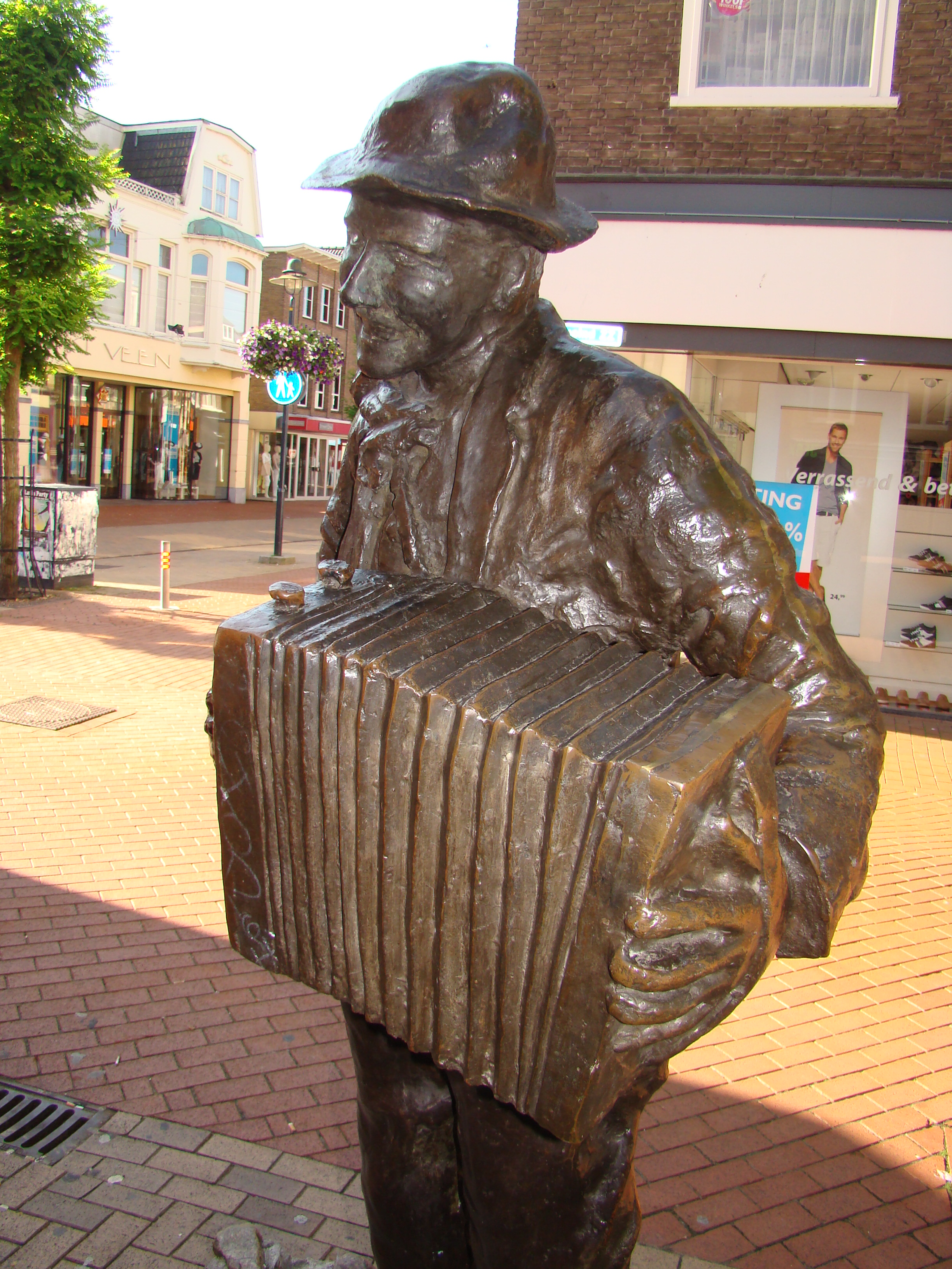 Impressions of Drachten (Netherlands)